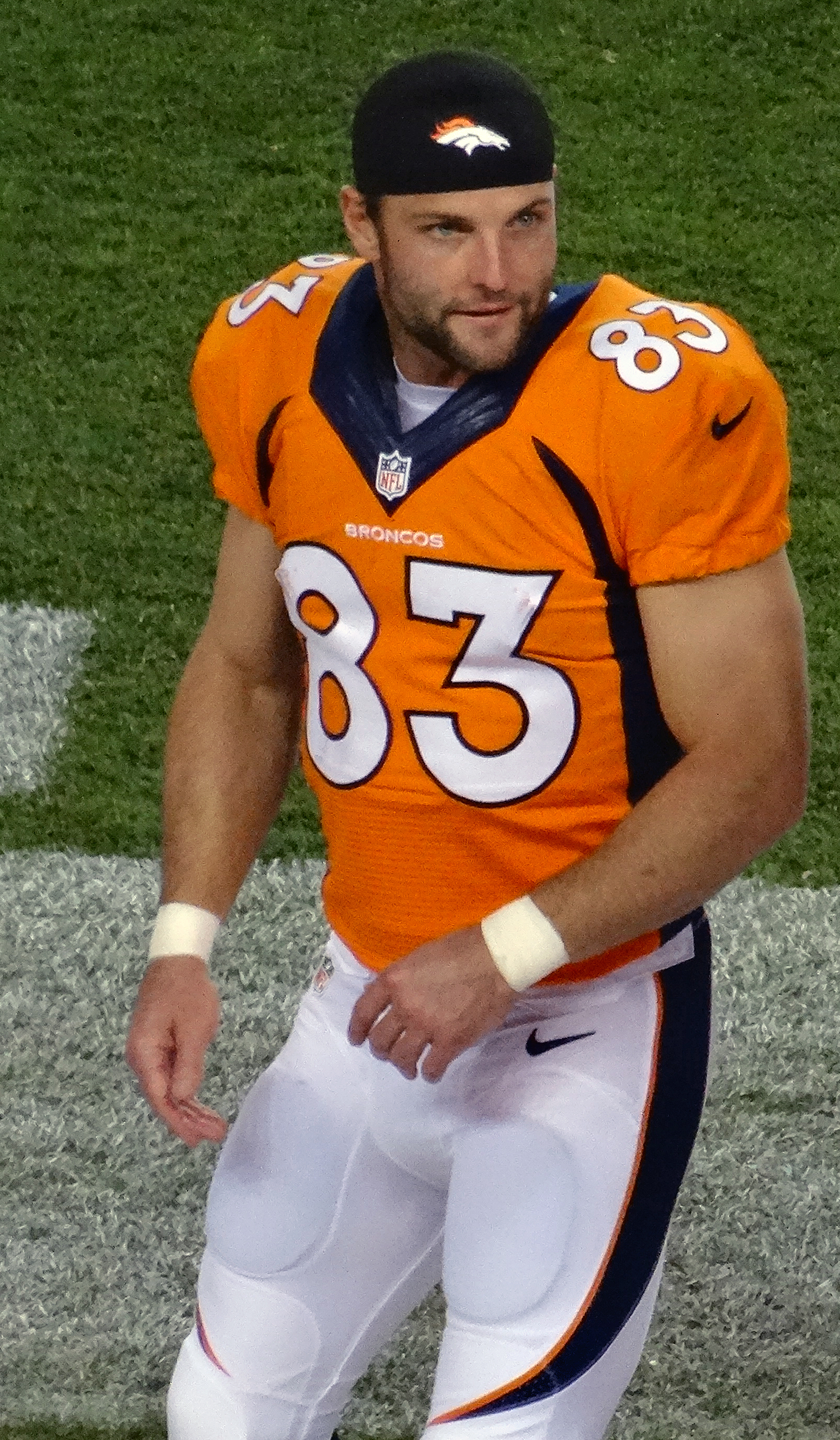 Wes Welker, a player on the National Football League.